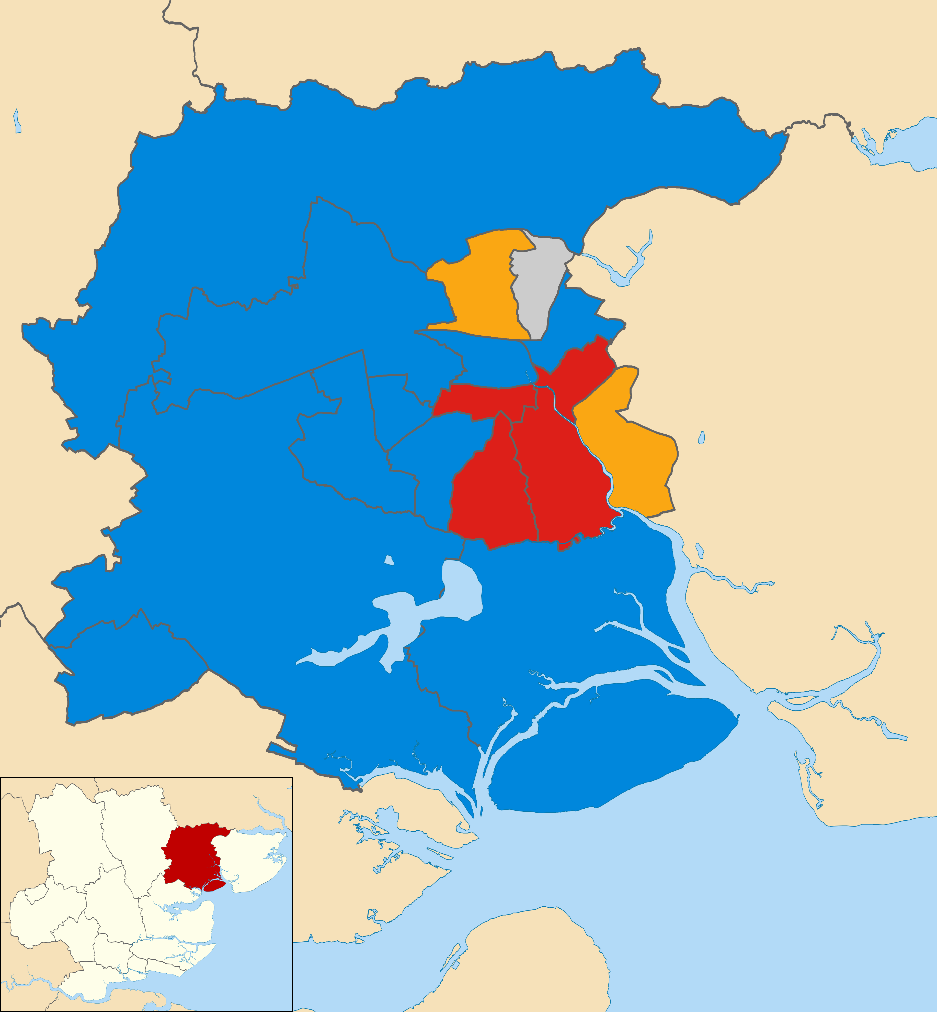 Results of the Colchester Borough Council election, 2018.